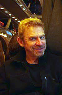 Image of John Foulcher, in August 2011